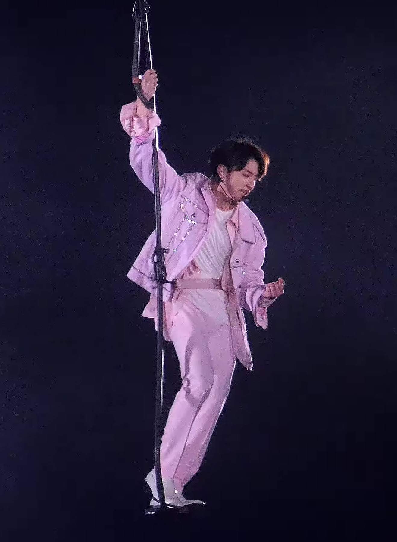 Jeon Jung-kook performing "Euphoria" during Speak Yourself tour at Rose Bowl, Pasadena, 5 May 2019